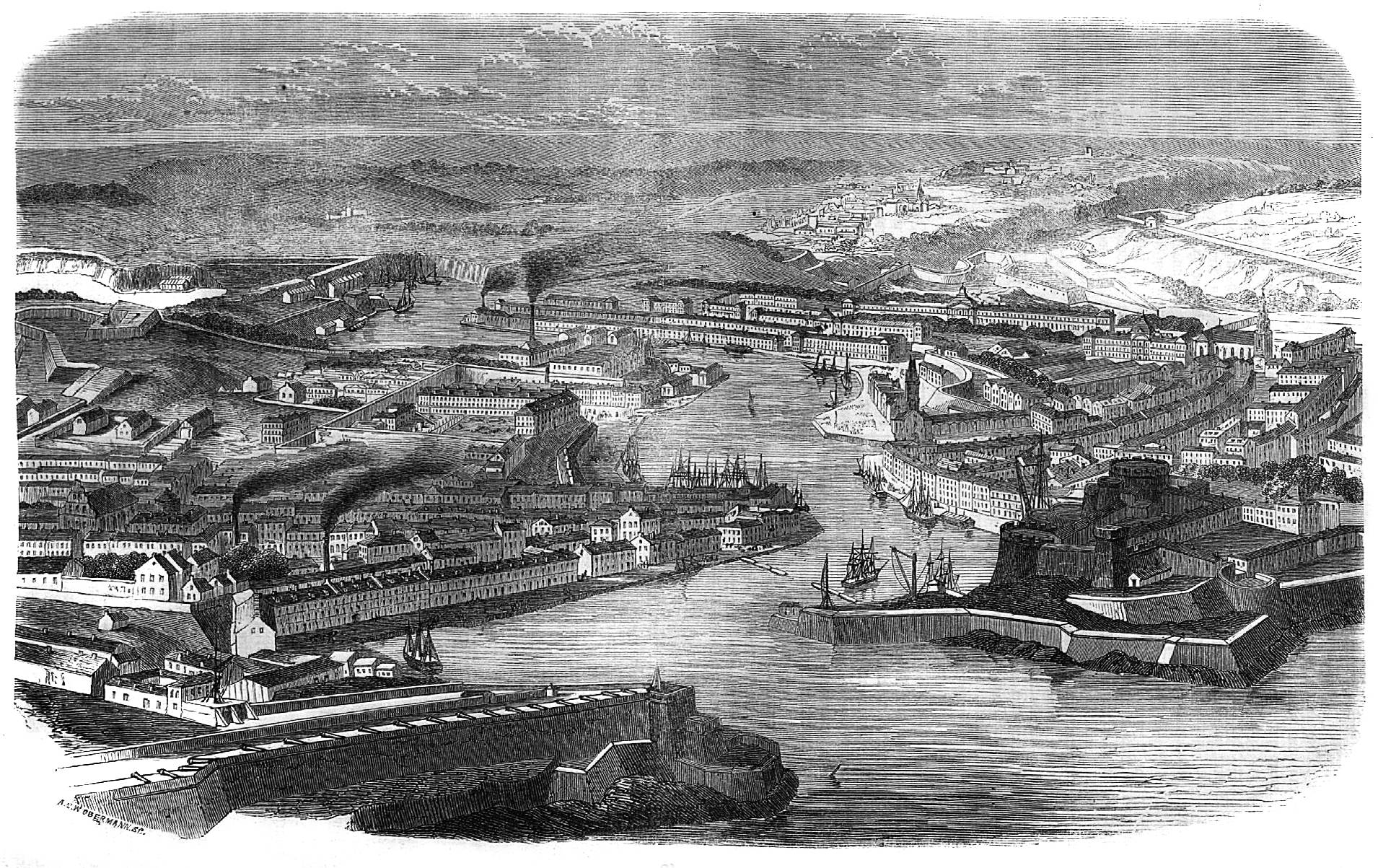 caption: "Brest."